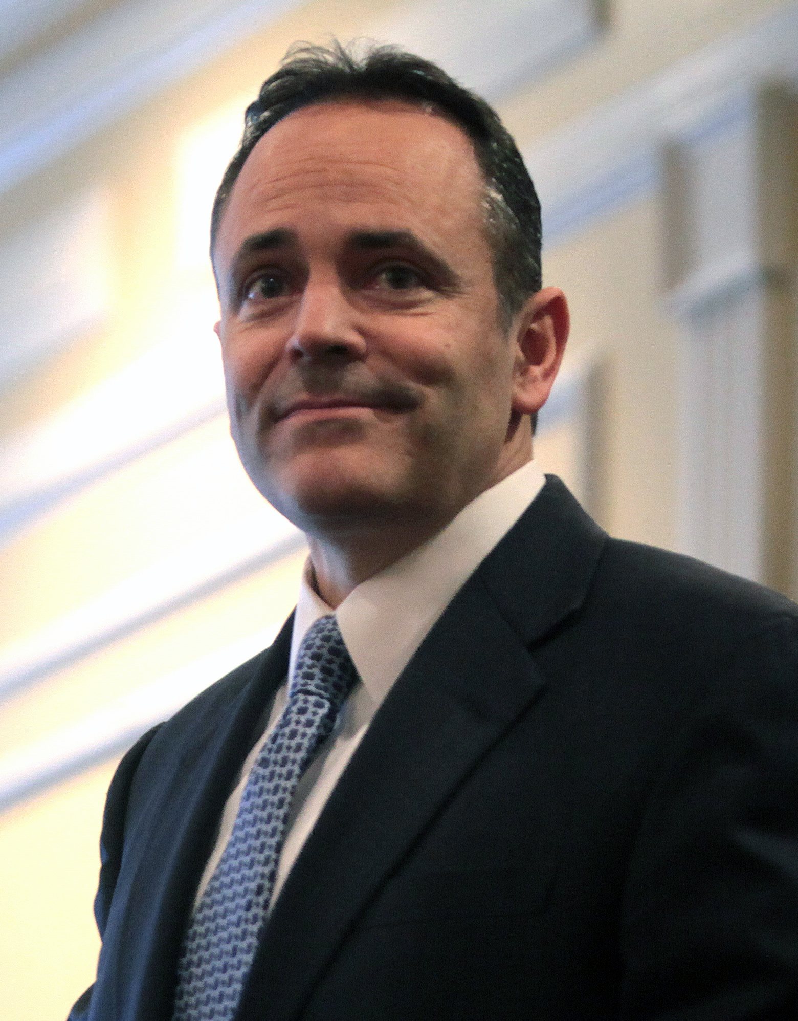 Matt Bevin speaking at an event in Nashua, New Hampshire.